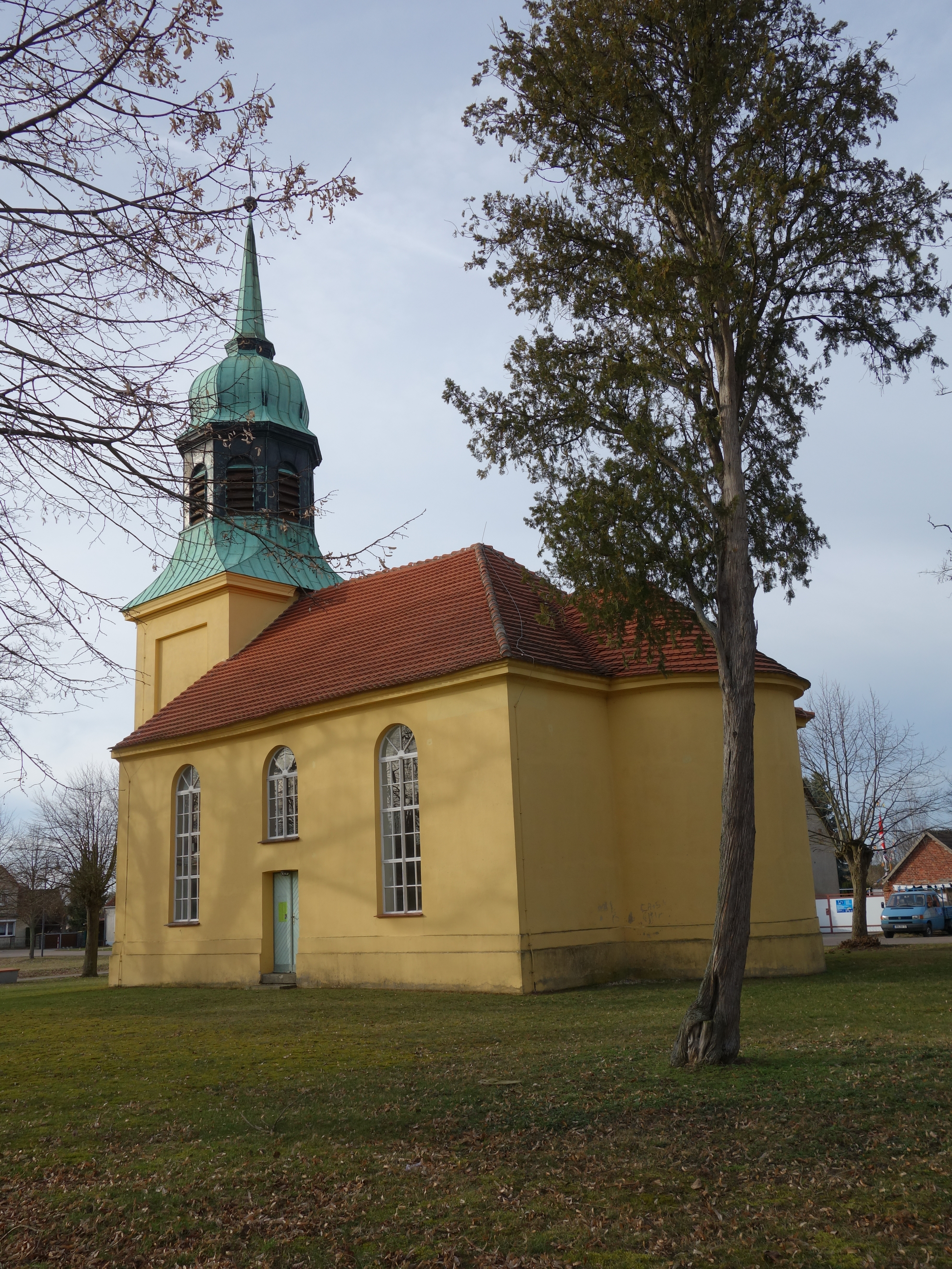 South-eastern view of village church in Mögelin, Premnitz municipality, Havelland district, Brandenburg state, Germany